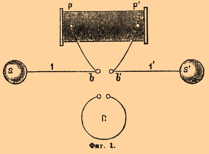 Illustration from Brockhaus and Efron Encyclopedic Dictionary (1890—1907)